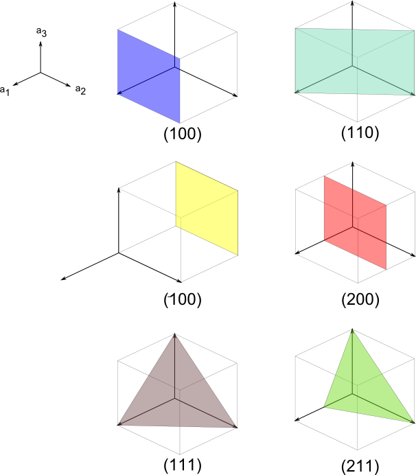 Miller indices of common planes on cubic crystal